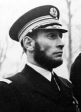 Jean-Marie Querville (1903-1967), French admiral. Photo between 1941 and 1945, when he was officer in the Free French Naval Forces.